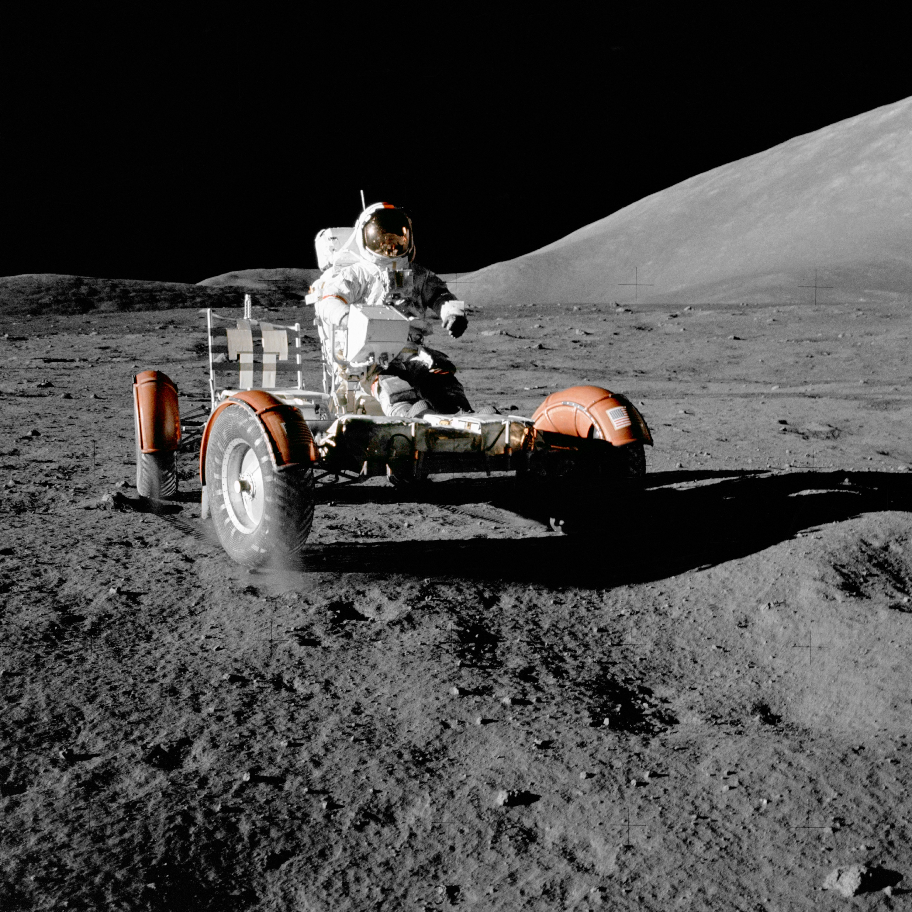 Apollo 17 mission, 11 December 1972. Astronaut Eugene A. Cernan, commander, makes a short checkout of the Lunar Roving Vehicle (LRV) during the early part of the first Apollo 17 Extravehicular Activity (EVA-1) at the Taurus-Littrow landing site. This view of the "stripped down" LRV is prior to loading up. Equipment later loaded onto the LRV included the ground-controlled television assembly, the lunar communications relay unit, hi-gain antenna, low-gain antenna, aft tool pallet, lunar tools and scientific gear. This photograph was taken by scientist-astronaut Harrison H. Schmitt, lunar module pilot. The mountain in the right background is the east end of South Massif. While astronauts Cernan and Schmitt descended in the Lunar Module (LM) "Challenger" to explore the Moon, astronaut Ronald E. Evans, command module pilot, remained with the Command and Service Modules (CSM) "America" in lunar-orbit. N.B: Original NASA caption.